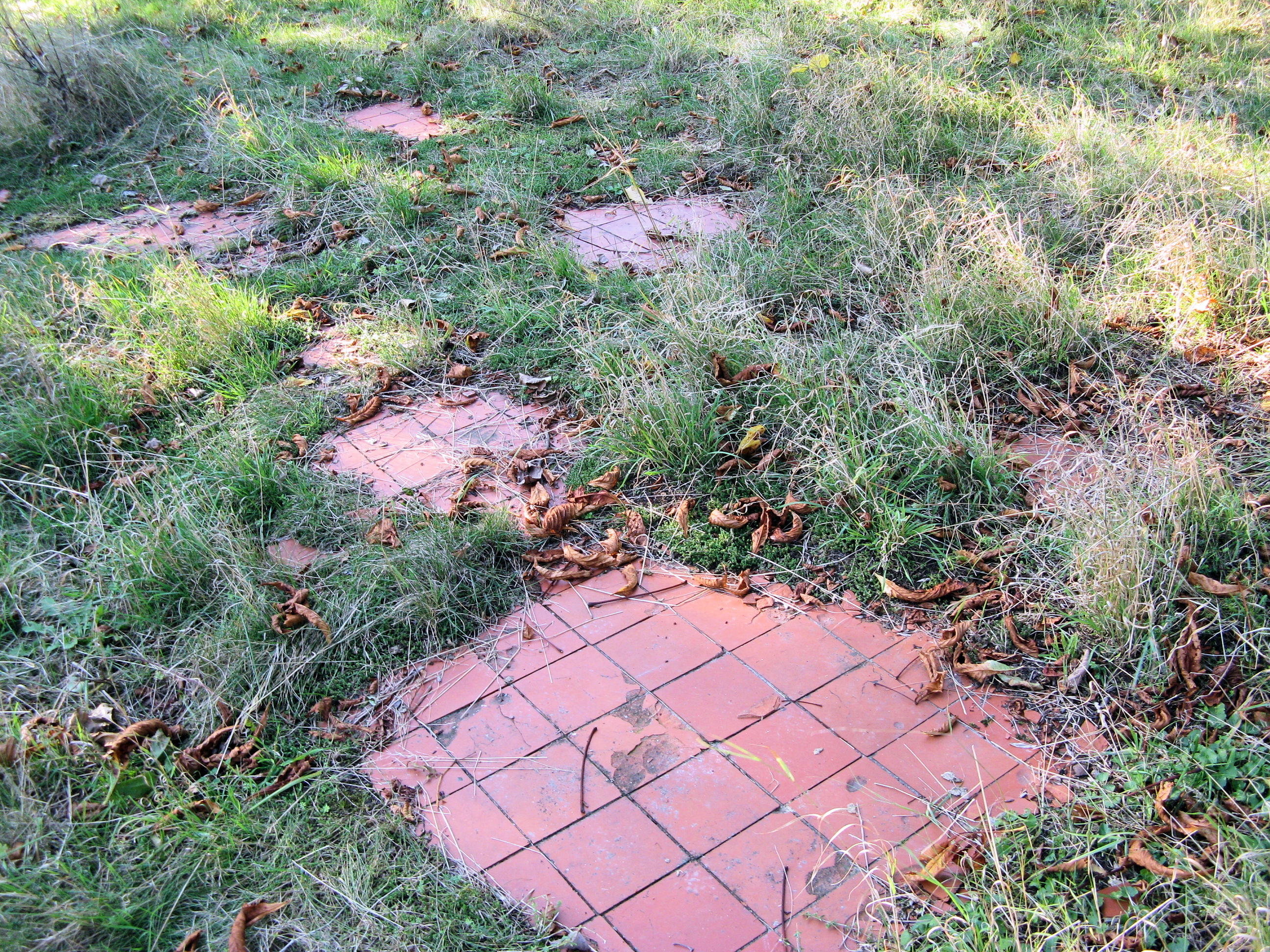 House base rests of the abandoned village Lankow, disctrict Nordwestmecklenburg, Mecklenburg-Vorpommern, Germany